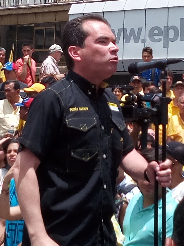 Tomás Guanipa during the Venezuelan National Assembly special session in Brión Square, Caracas, on 1 April 2017